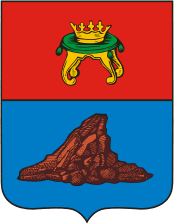 Krasny Kholm (Tver oblast), coat of arms (1781)